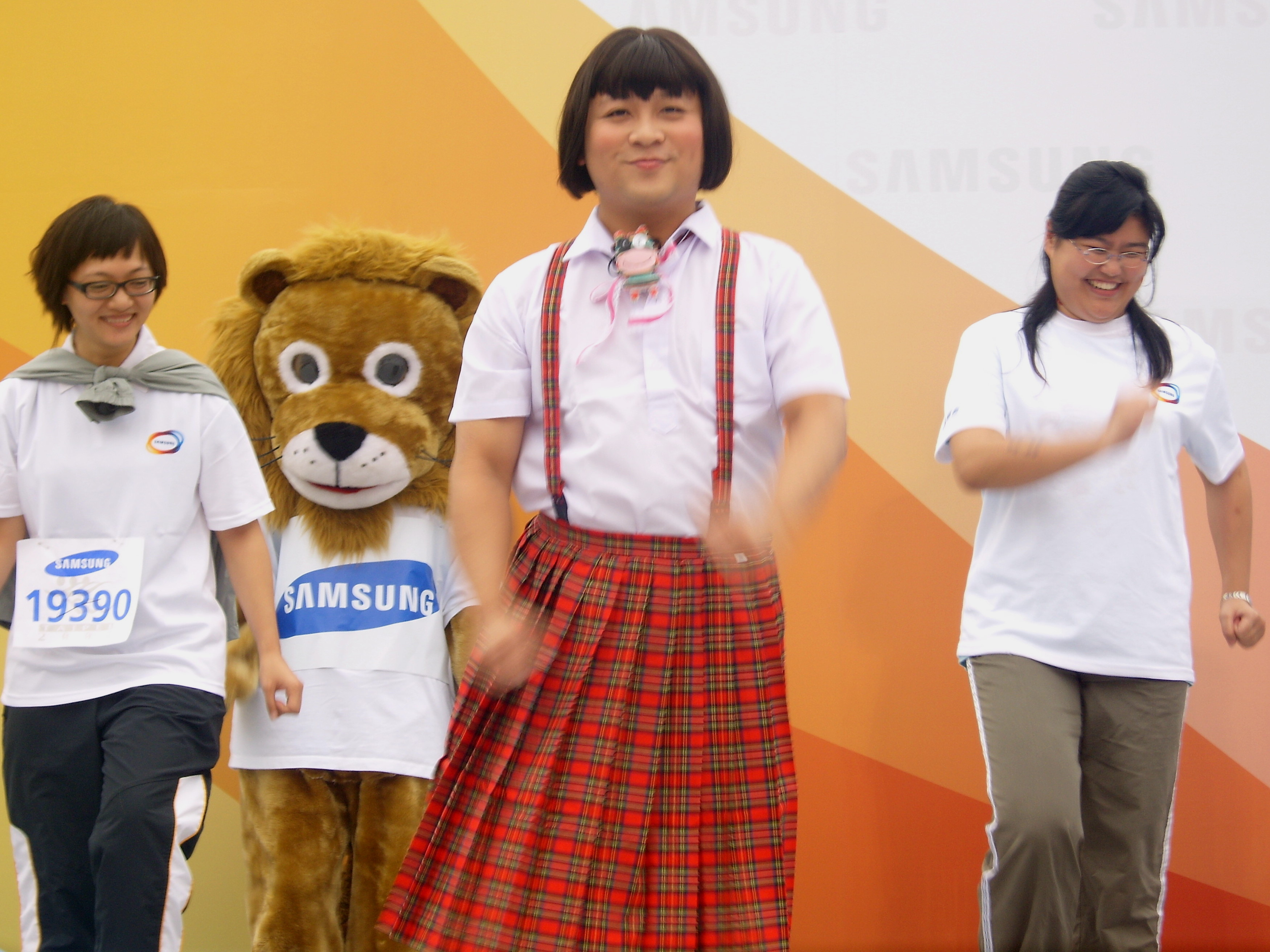 The Live Contest of CTITV "Ape Show" at 2007 Samsung Running Festival Taipei.